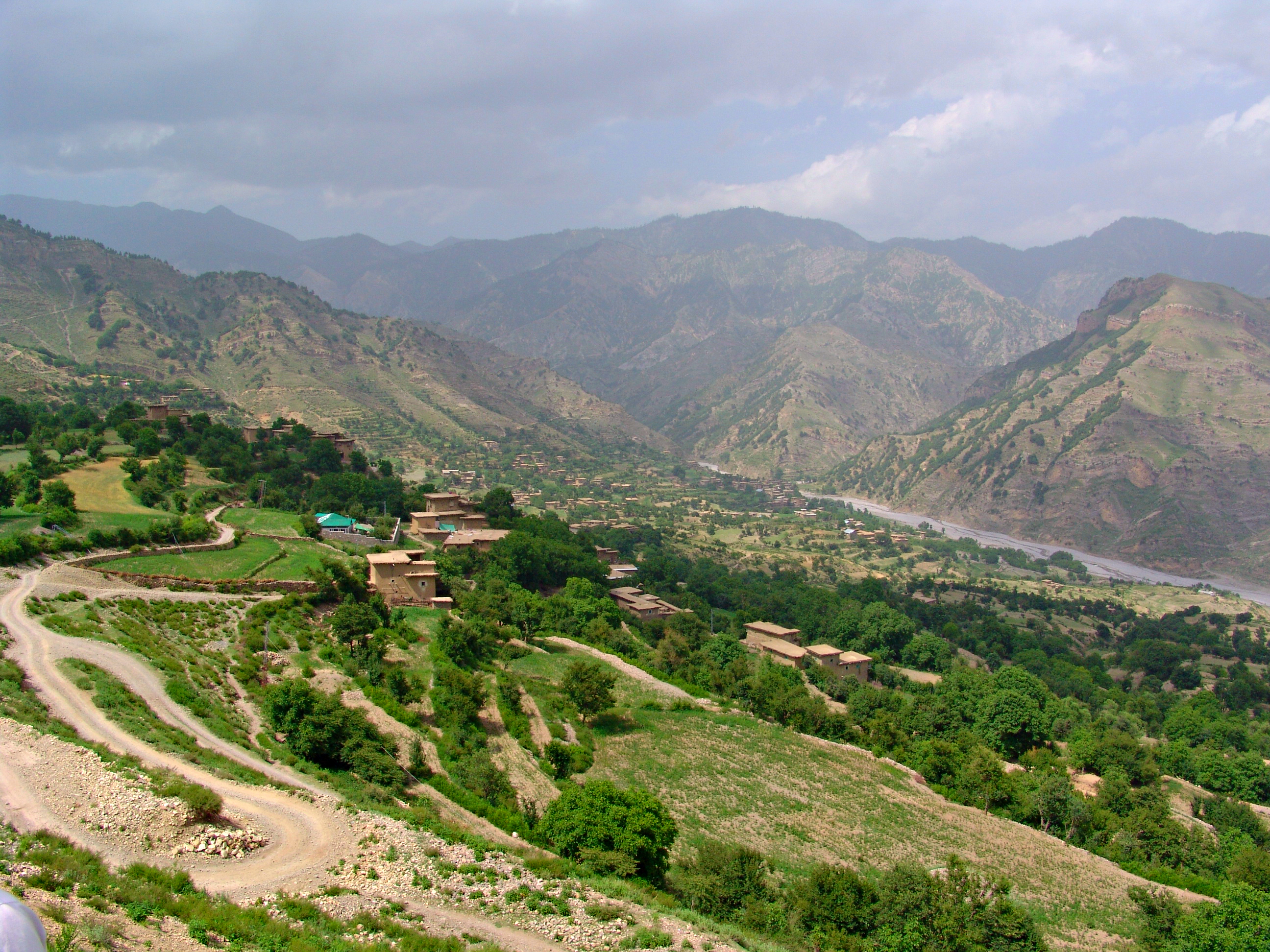 Tari Mangal is a small city on the Pakistani-Afghan border near Safēd Kōh and is part of the Federally Administered Tribal Areas, Pakistan. Tari Mangal is 23 km from Parachinar and 0.8 km from Ali Mangal Post. The Pashtun Tribe Mangal have been living in Tari Mangal for more than 600 years.